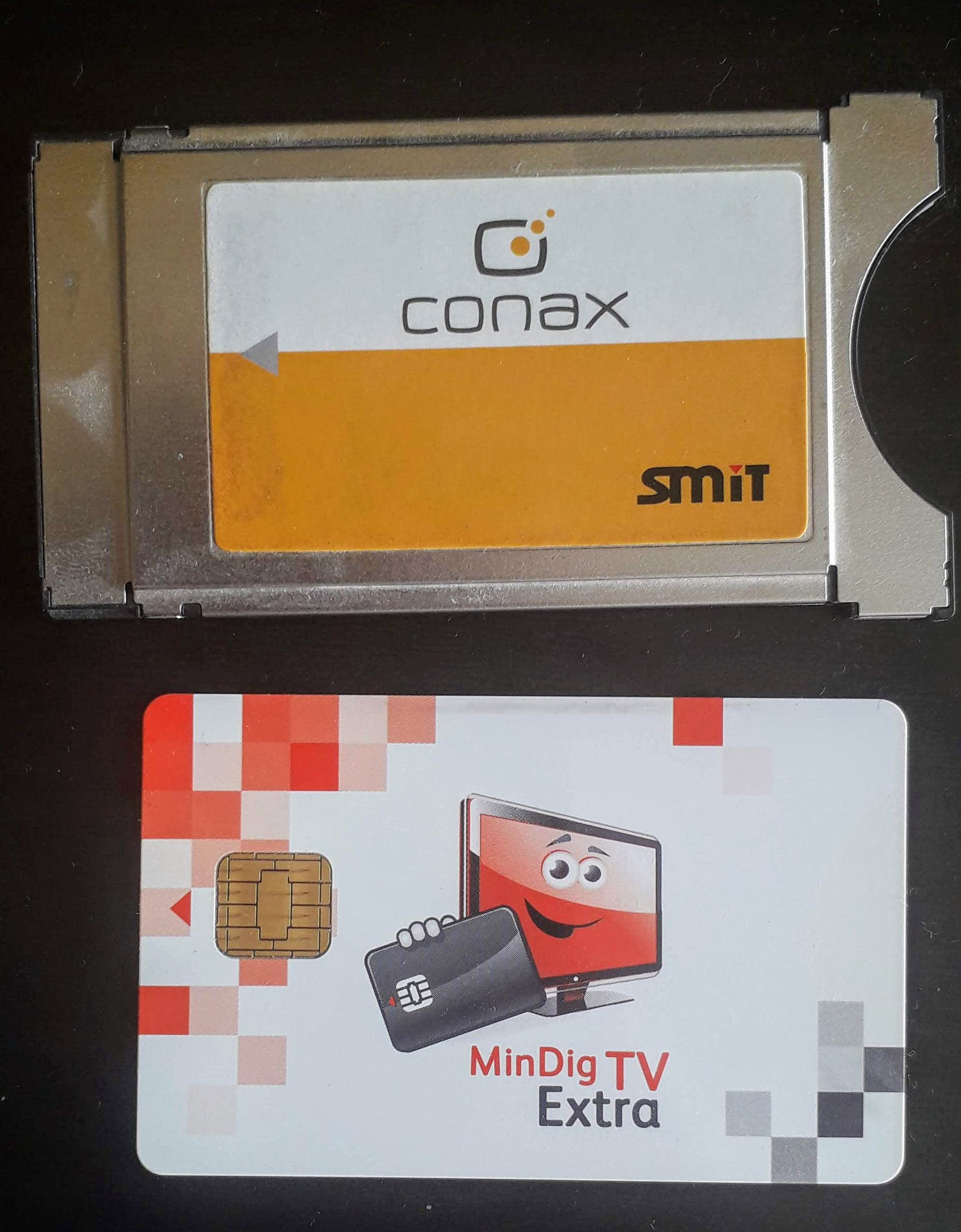 Conax card reader and customer smartcard for Hungarian DVB-T pay TV service MinDig TV Extra